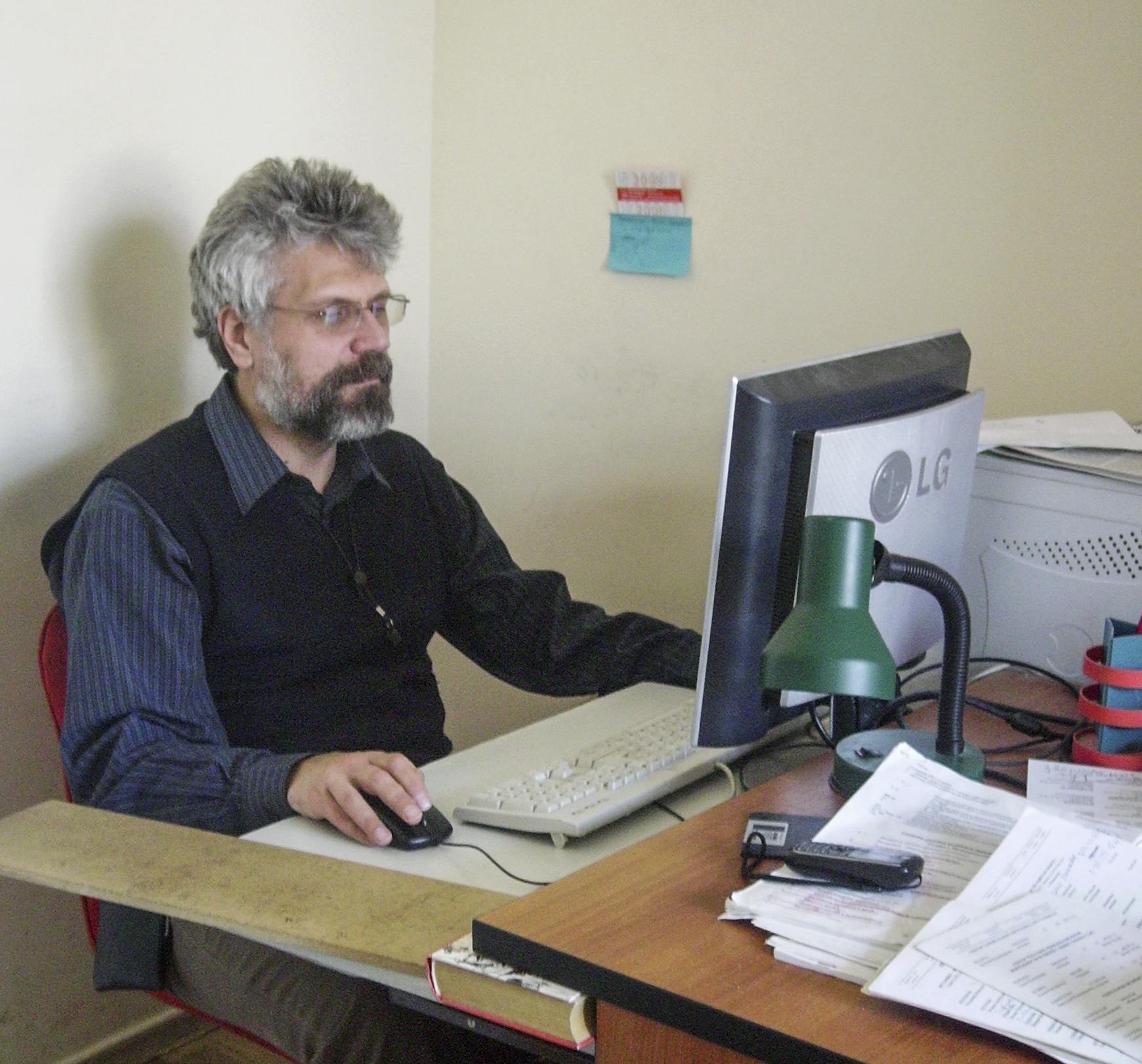 Balakirev Alexander Sergeevich, senior researcher of State Central Museum of Contemporary History of Russia (in 2000—2008)